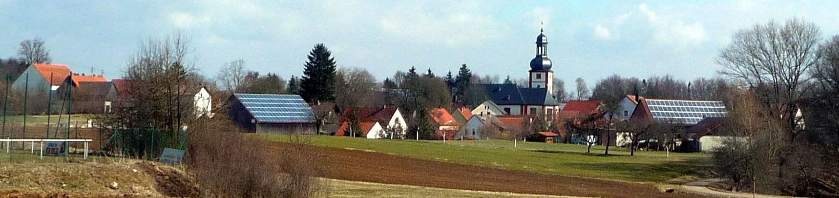 Arnstein (Weismain)